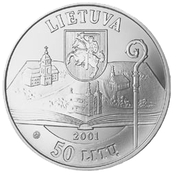 50 litas coin issued to commemorate the 200th birth Anniversary of Motiejus Valanciaus (1801-1875) Silver Ag 925 Quality proof Diameter 38.61 mm Weight 28.28 g The words on the edge of the coin: LIETUVIŠKAS ŽODIS, RAŠTAS IR TIKĖJIMAS - TAUTOS GYVASTIS (THE LITHUANIAN WORD, WRITING AND FAITH ARE THE VITALITY OF THE NATION) The designer of the coin is Rimantas Eidejus Mintage 2,000 pcs Issued 2001 Distributed 2,000 pcs The coin was minted at the state enterprise Lithuanian Mint.